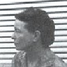 Image of Simone de Beauvoir